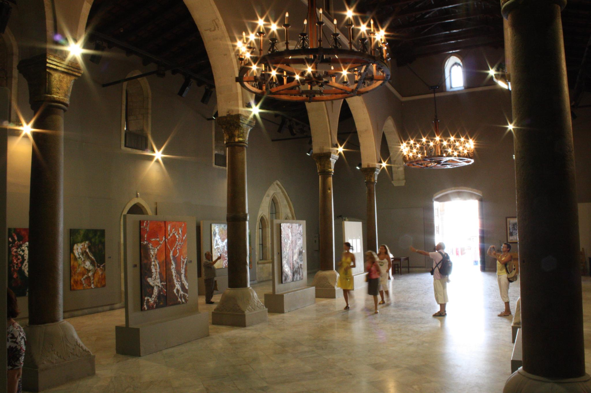 Interior of St Mark Basilica, Heraklion